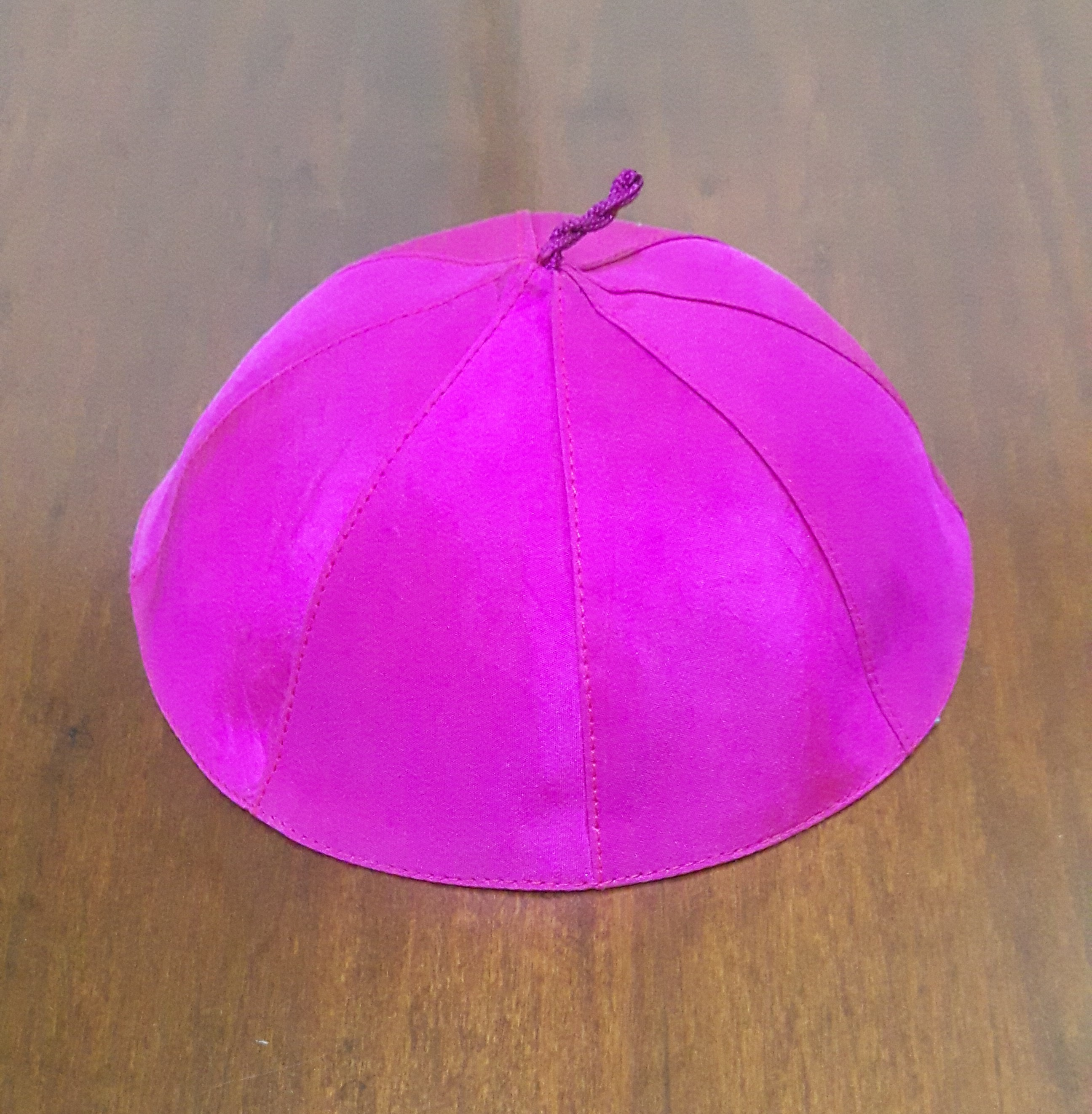 Pink zucchetto